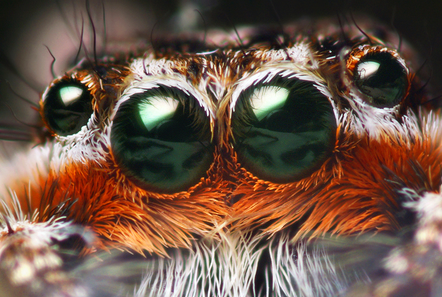 Anterior median eyes of an adult male Platycryptus undatus jumping spider.